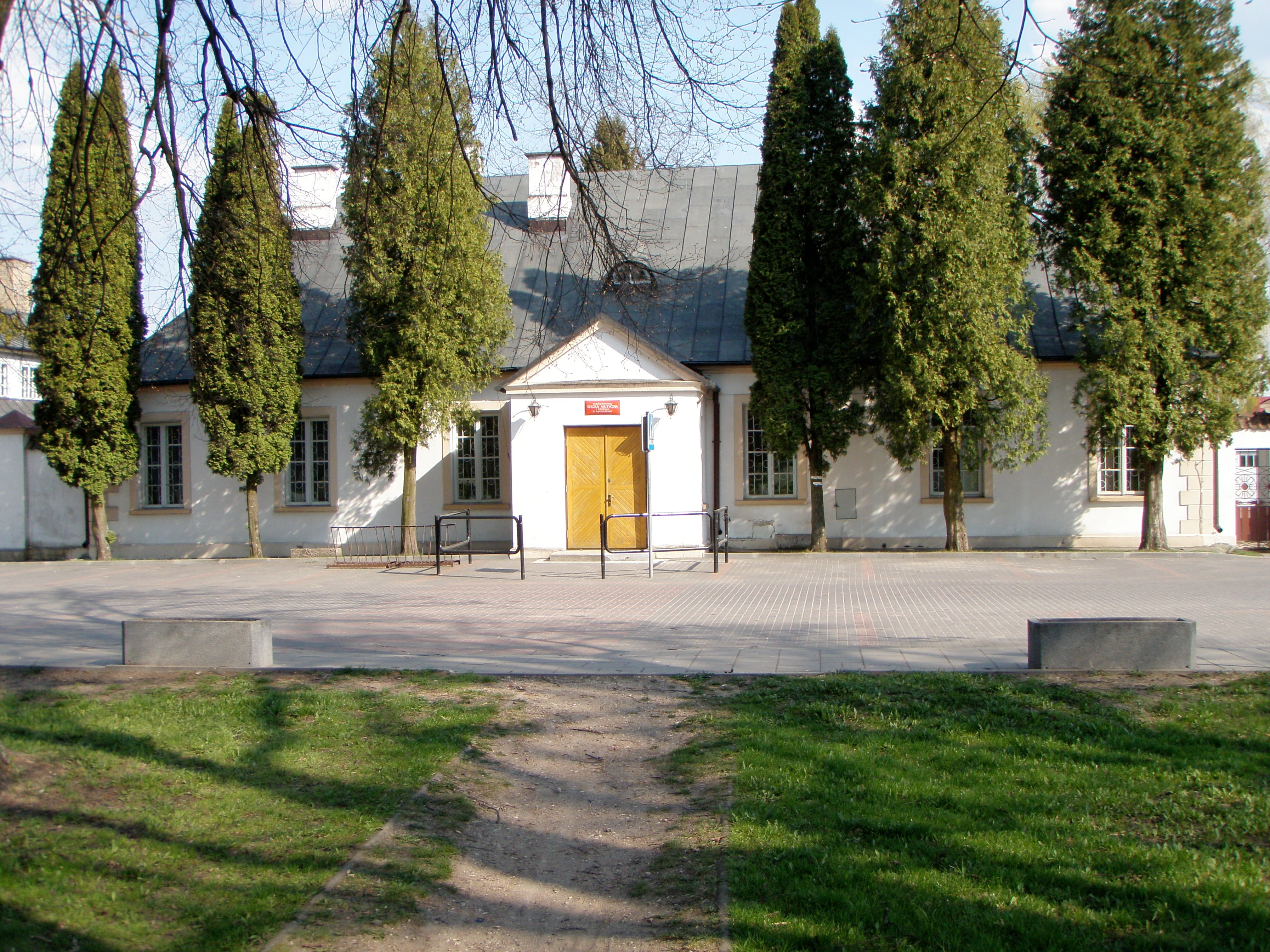 Old post office in Augustów, Poland, 1829 (now a music school), main building.